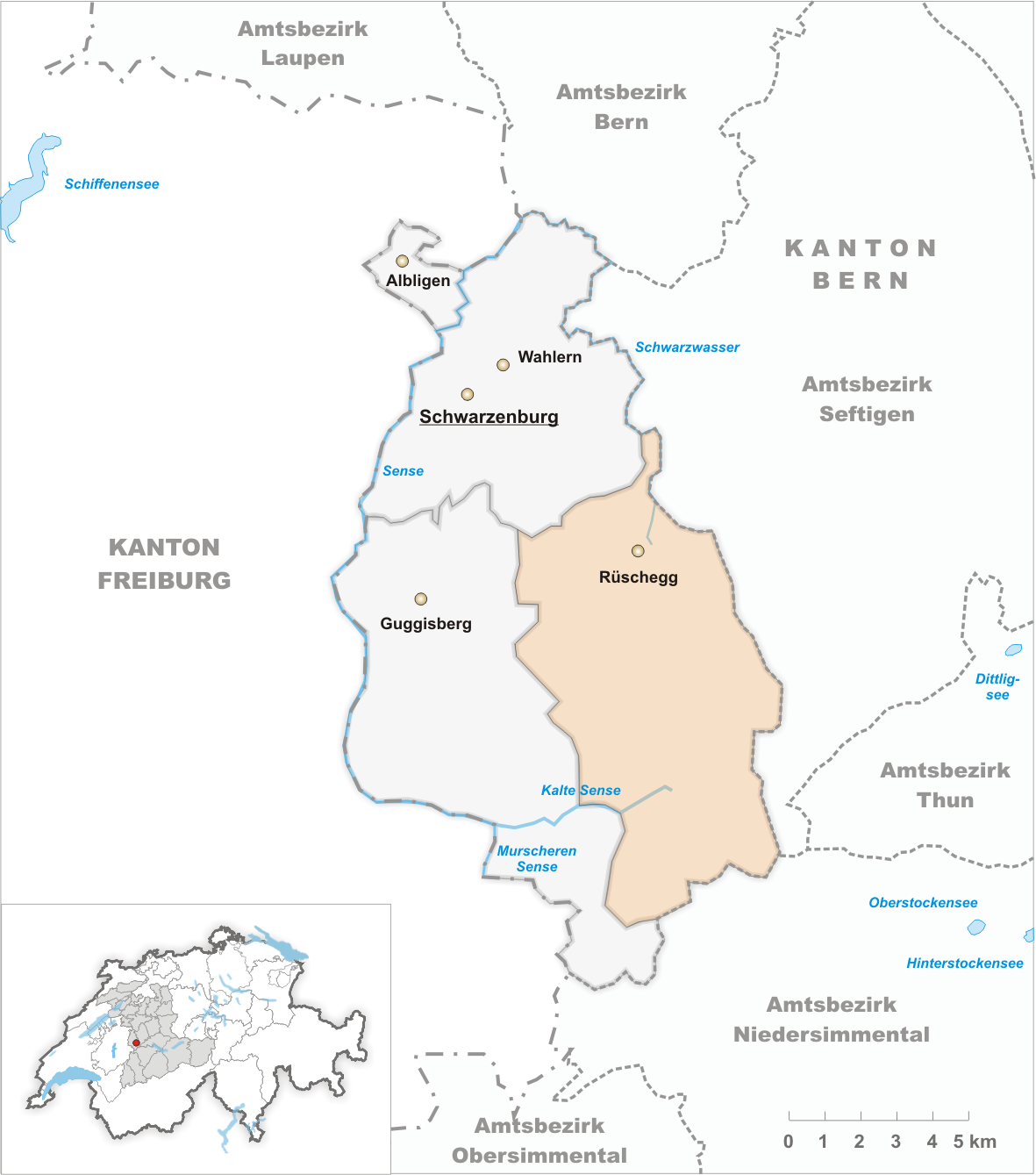 Municipality Rüschegg